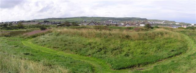 Lissanduff Earthworks, Port Ballintrea. This is the smaller one.